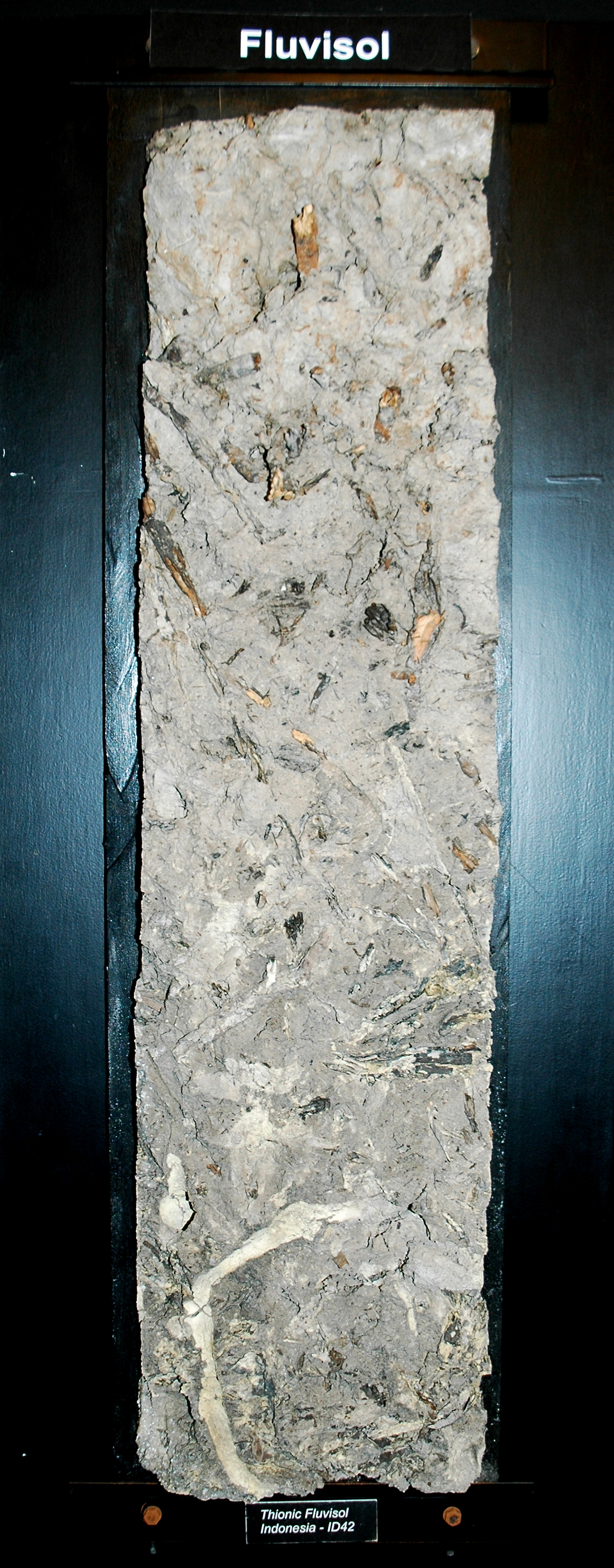 Soil profile of an acid sulphate soil, a Thionic Fluvisol from Indonesia